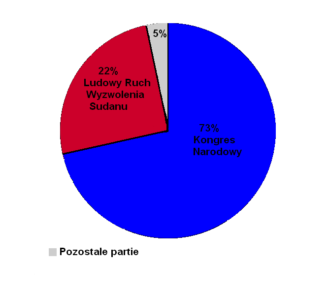 Sudan parliamentary election results, 2010.